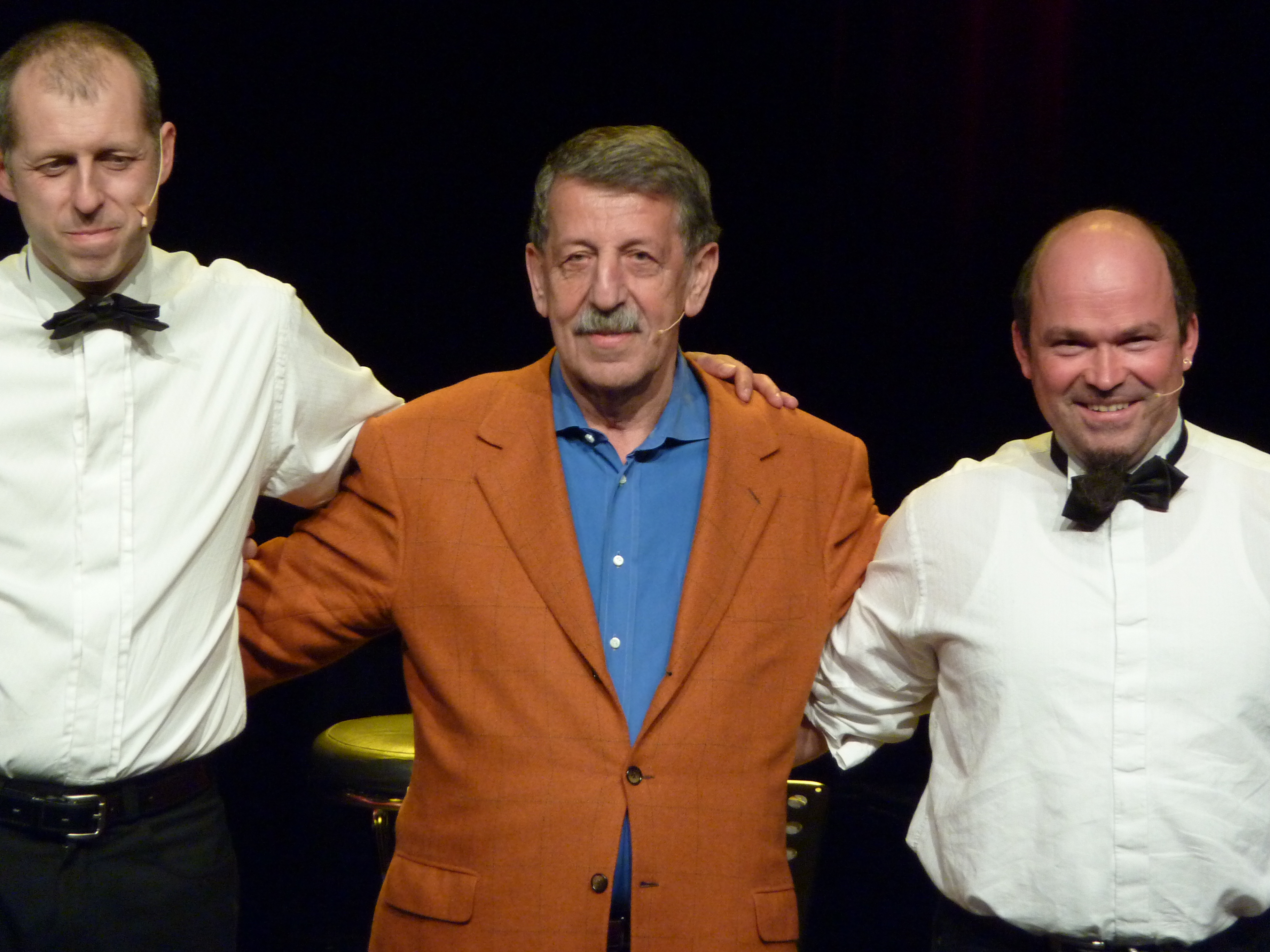 Ulrich Kienzle with Tango Five Trio in the Theaterhaus Stuttgart